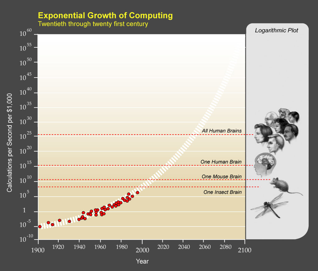 Exponential growth of computing. 20th to 21st centuries.